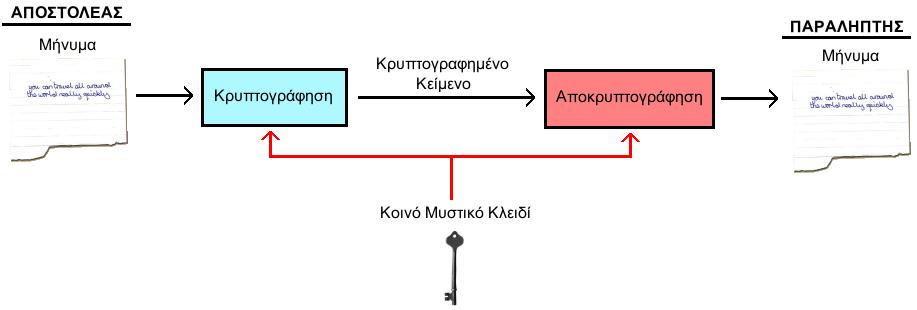 Symmetric key cryptography diagram